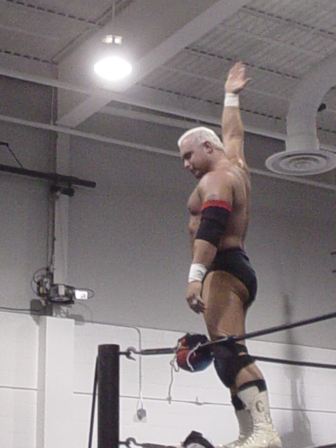 Professional wrestler Chris Candido at an NWA Cyberspace show in 2005.